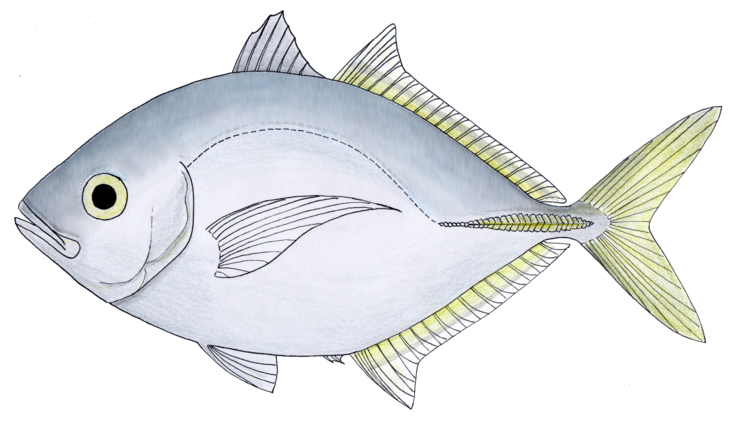 Hand drawn and colour image of the whitefin trevally, Carangoides equula. Based on Carpenter et al (2002) and fishbase photos